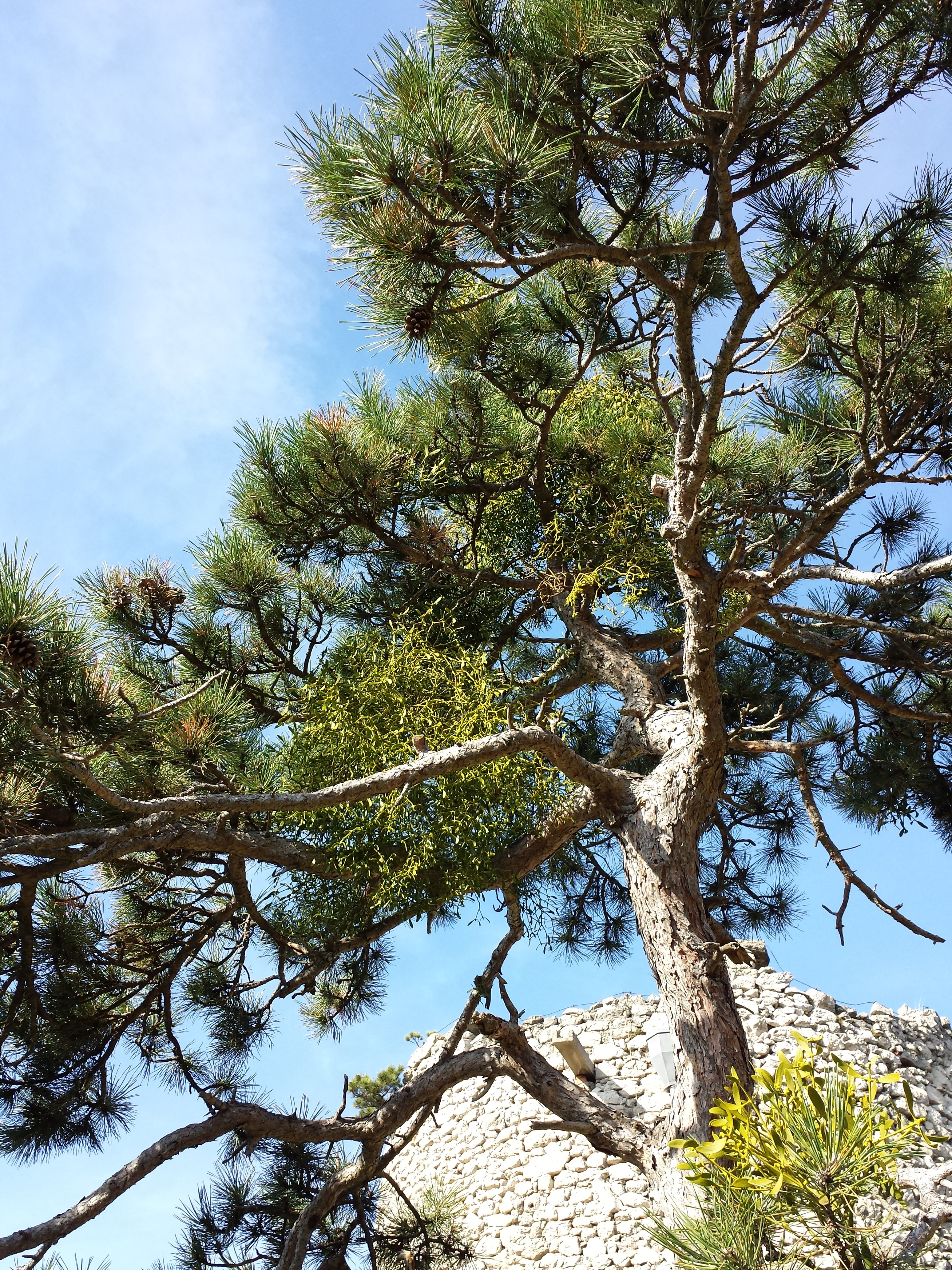 Habitus Taxon: Viscum laxum subsp. laxum on Pinus nigra subsp. nigra (sensu Fischer et al. EfÖLS 2008; det. M. A. Fischer 2013-10-19) Location: near "Schwarzer Turm", district Mödling, Lower Austria - ca. 300 m a.s.l. Habitat: pine wood